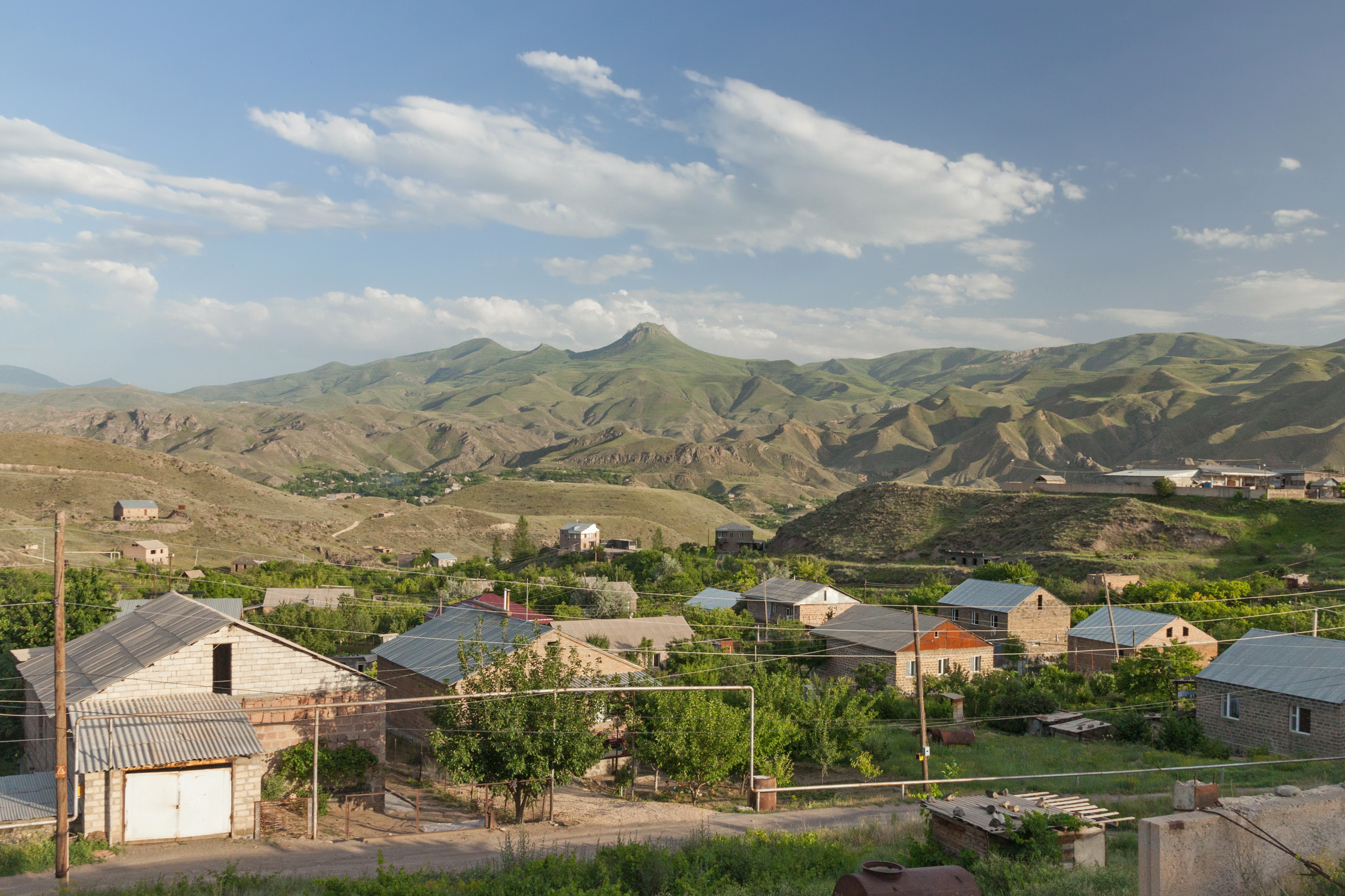 Landscapes seen from the road M2 - views of the surrounding areas. Yeghegnadzor, Vayots Dzor Province, Armenia.